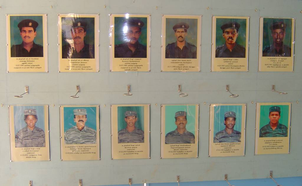 Gallery of LTTE Black Tiger cadres, "Captain Miller" is NOT included in this photo. For captain Miller's photo go to Taken by Ulf Larsen, with a Sony Cybershot DSC-P10, 5 megapixel digital camera